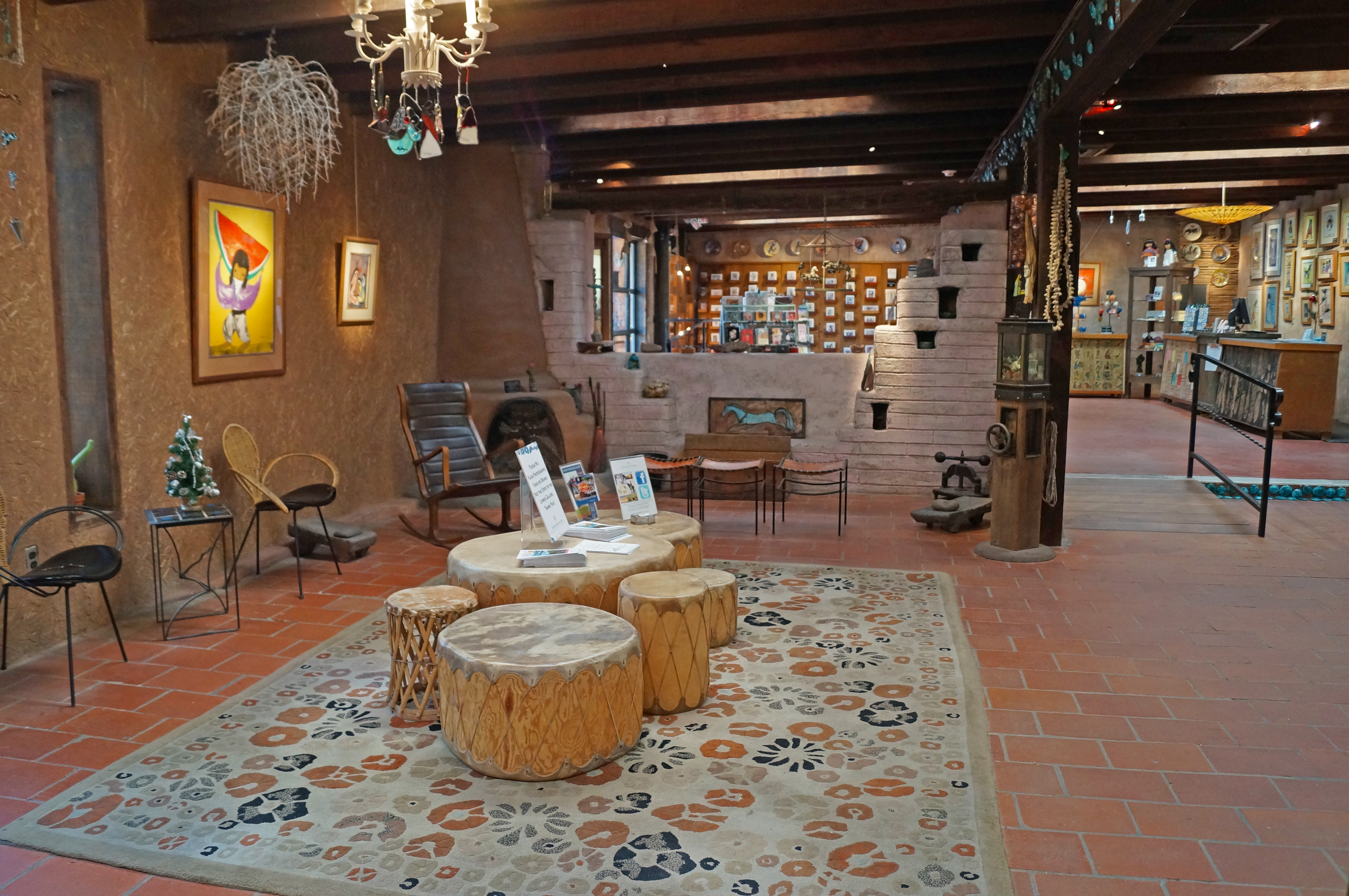 Interior lobby of DeGrazia's Gallery In the Sun- open daily from 10:00-4:00.